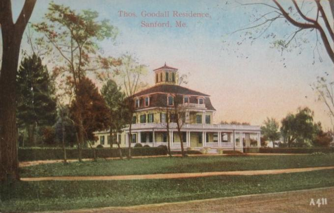 Thomas Goodall residence, Sanford, Maine. Built in 1871, it was added to the National Register of Historic Places in 1975.